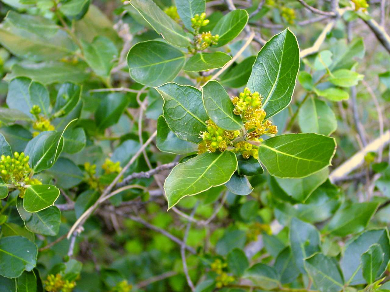 Rhamnus alaternus, Riserva naturale Monte Pellegrino, Sicily